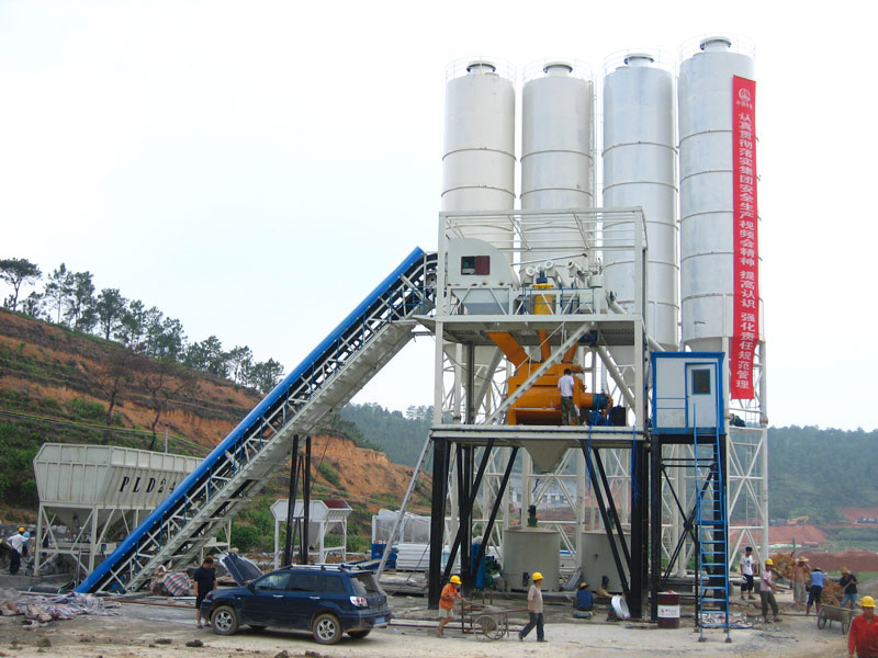 In this photo, you can see a set of belt conveyor concrete plant being installed. It clearly shows the belt conveyor concrete plant's main structure, batch hopper, belt conveyor, cement bins, mixer, etc.